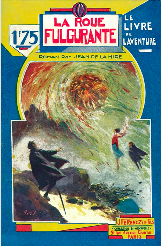 Cover of La Roue Fulgurante by Jean de La Hire, published in Paris, by J. Ferenczi & fils.